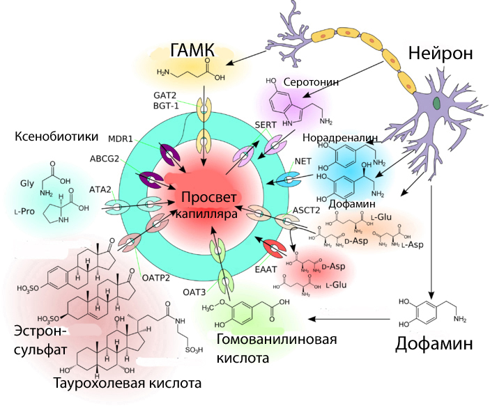 This file was taken from german wikipedia article (Blut-Hirn-Schranke) which was made by user Kuebi = Armin Kübelbeck and LadyofHats under licence Creative Commons Attribution 3.0 Unported. I changed german words in russian with Photoshop